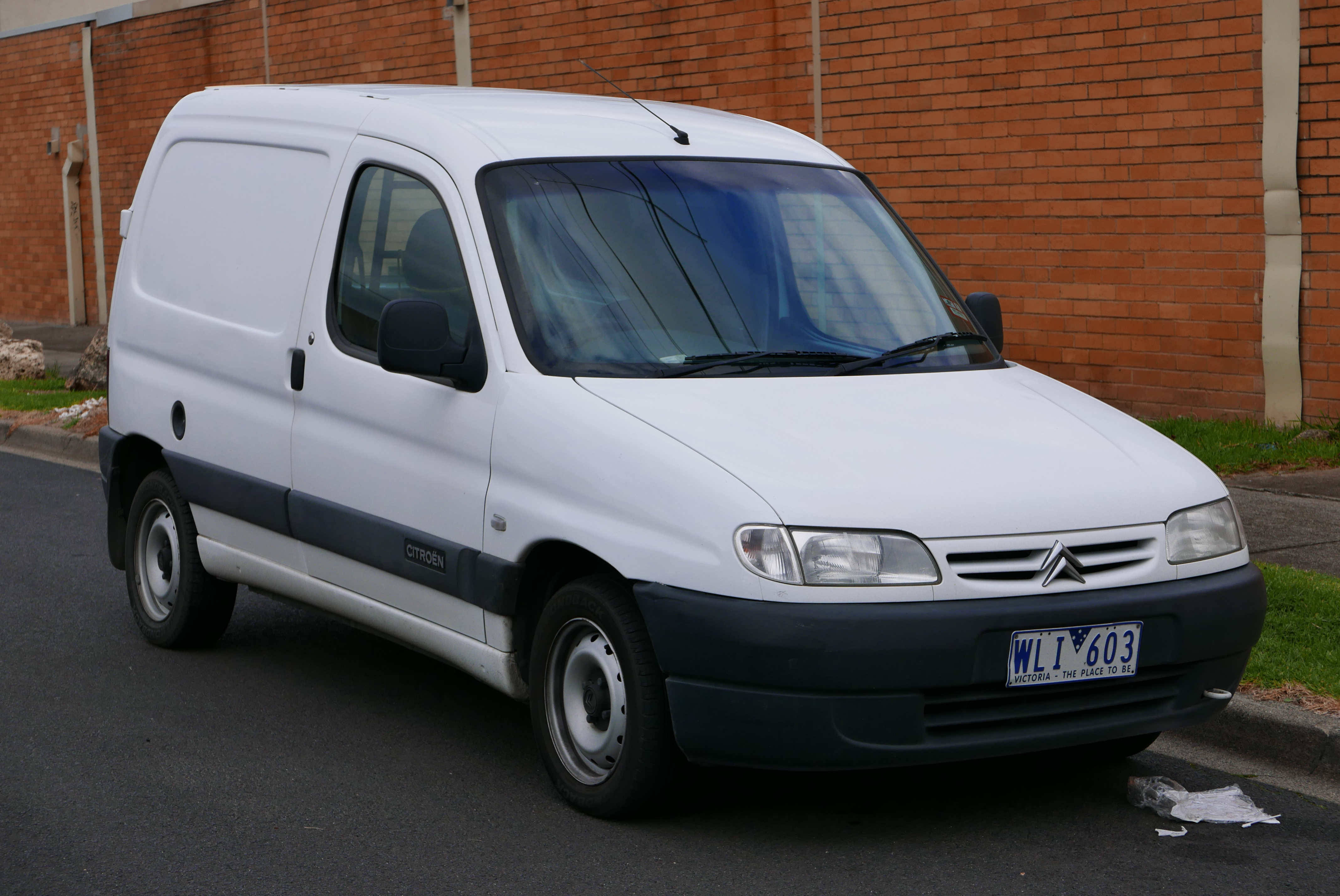 2001 Citroën Berlingo (M59) van. Photographed in Fairfield, Victoria, Australia. Vehicle registration enquiry results Jurisdiction Victoria Registration WLI603 Chassis code VF7MCKFWB65583695 Engine code 10FS9L3400705 Compliance date 2001-07 Year of manufacture 2001